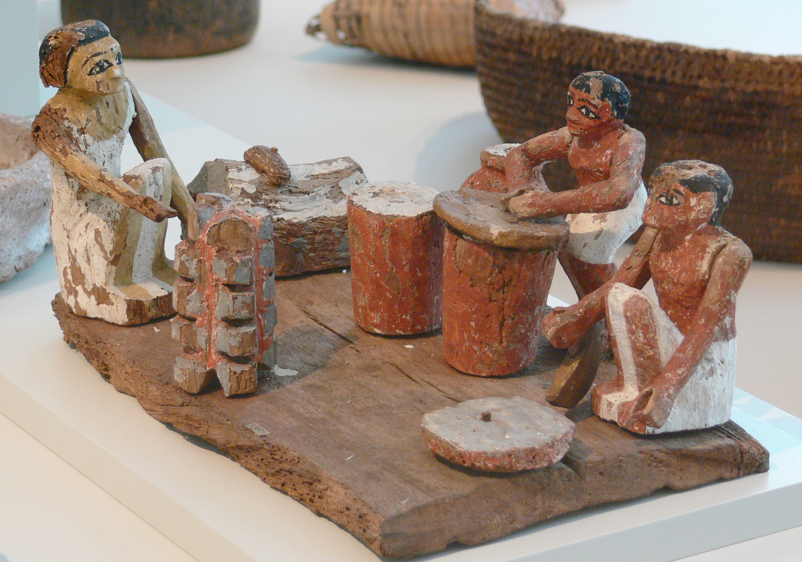 Kitchen model; workers grinding, baking and brewing; 12th dynasty, 2050-1800 BC. Egyptian Museum Berlin, Inv. 1366